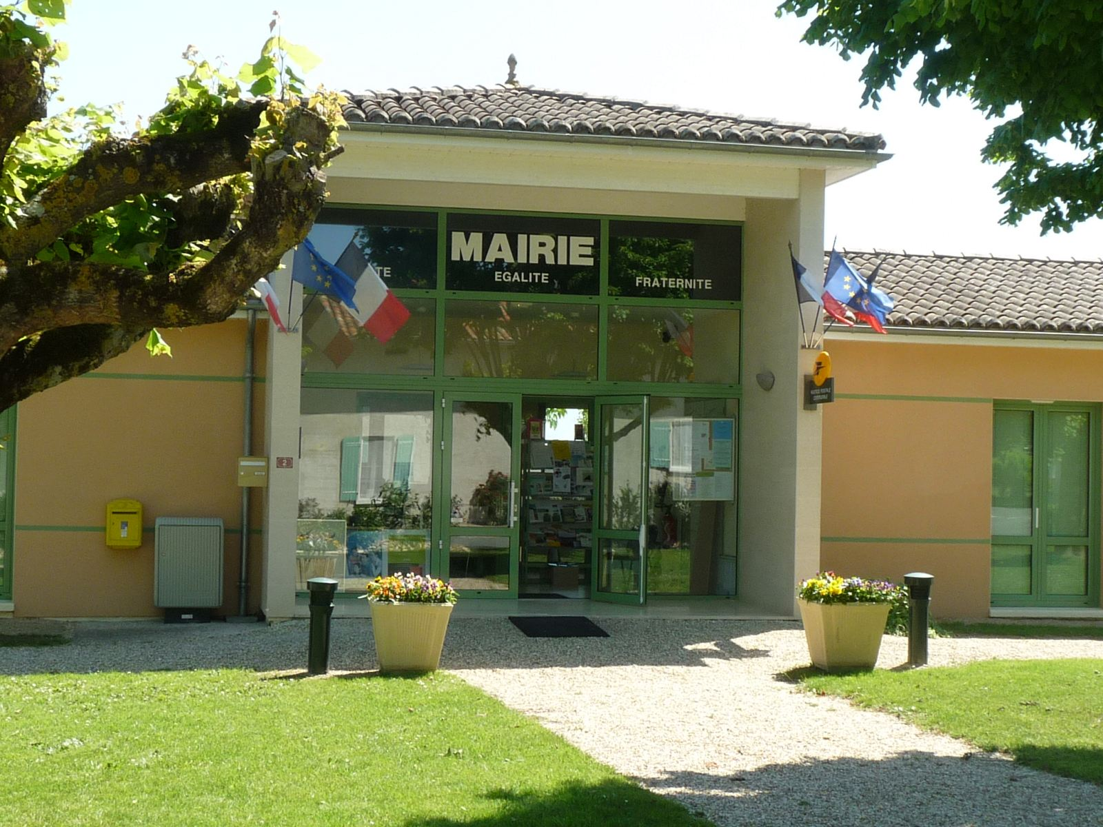 town hall of Bonnes, Charente, SW France